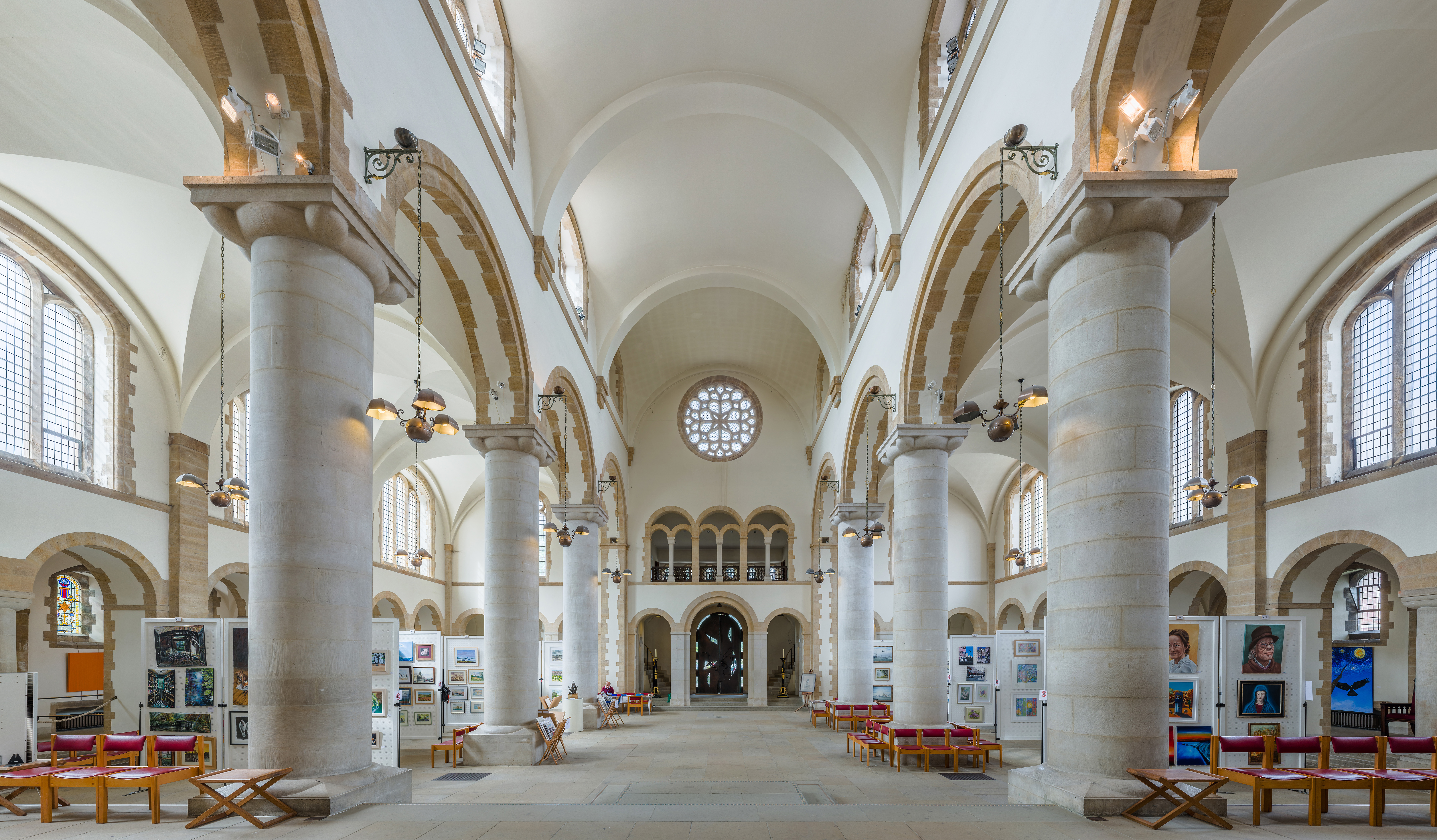 The nave of Portsmouth Cathedral looking west, in Hampshire, England.